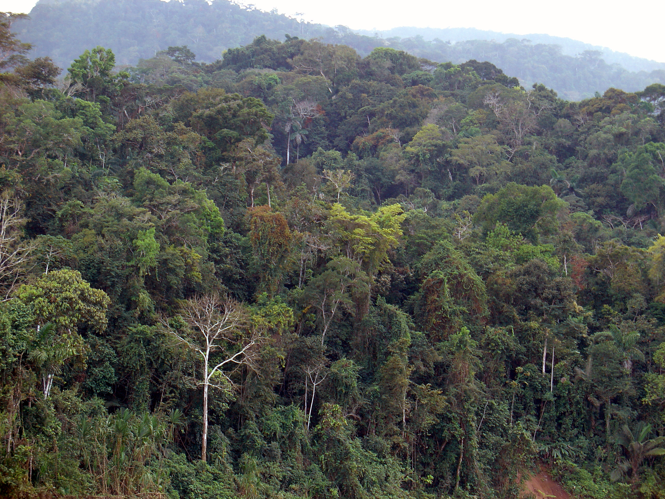 Please, have this description accessible to all by translating it in different languages.